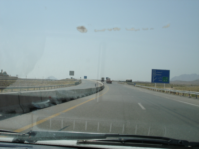 Junction of highway Tehran-Ispahan via Saveh and Salafechegan and road 56